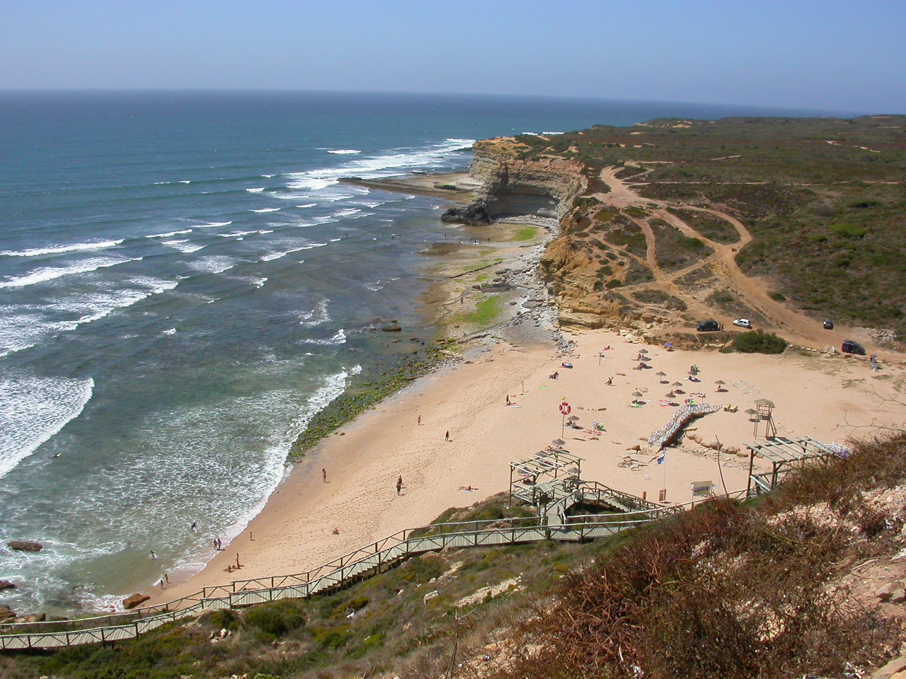 The Ribeira d'Ilhas beach, near Ericeira